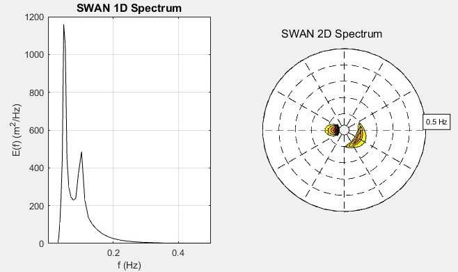 Example of a directional wave spectrum (sea waves). This spectrum is composed from two wave fields: Hs=1.5 m, Tp=20s from south (directional spreading 15 degrees) and Hs=4 m, Tp=20 s from 330 degrees (NW) (directional spreading 30 degrees)